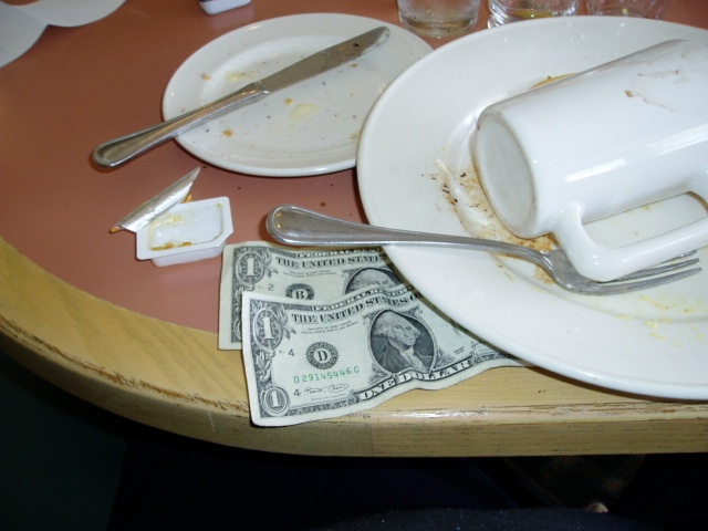 Tip left for good service at my local Coco's.